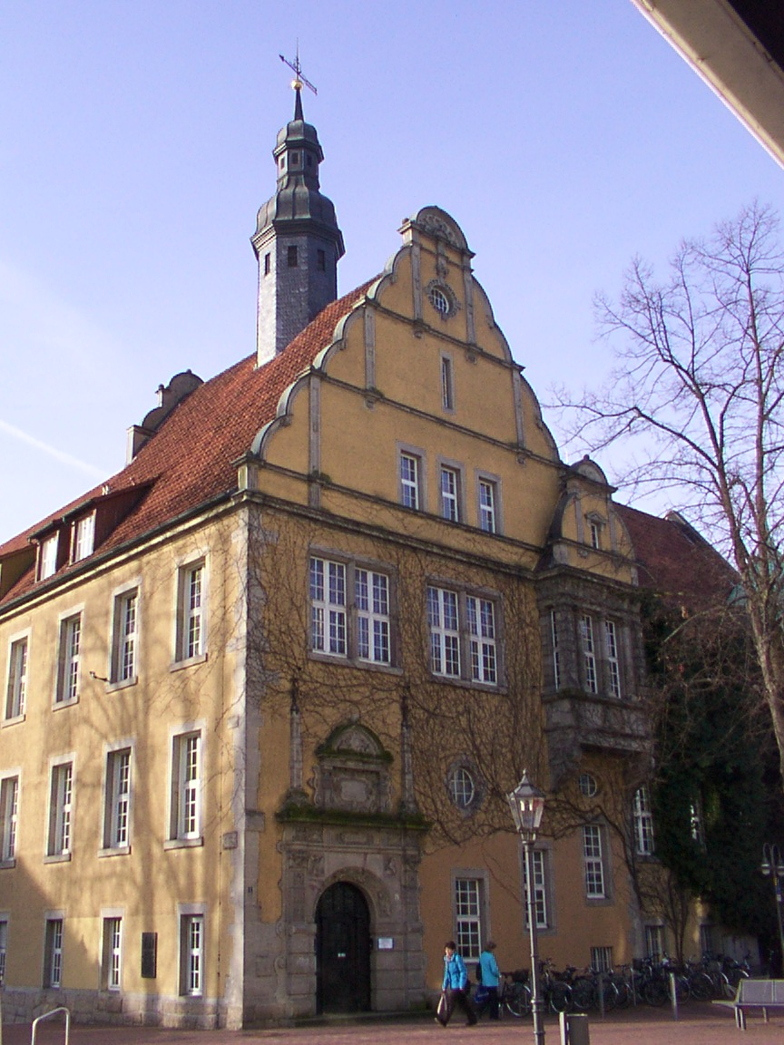 Gütersloh: former courthouse